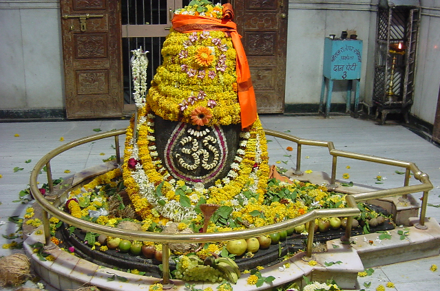 Raj-Rajeshwar Temple, Akola, India.